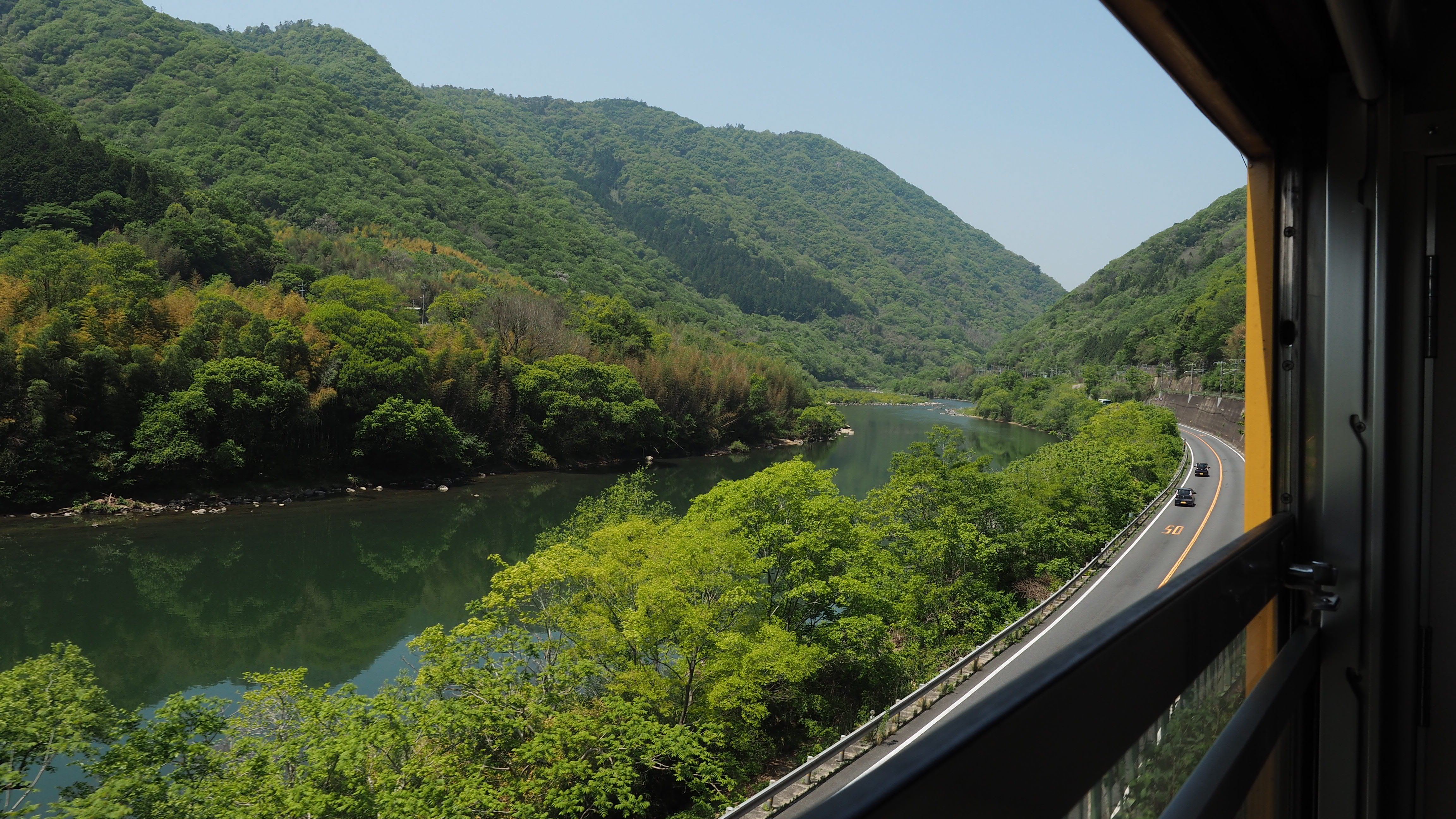 Takahashi River seen from the Hakubi Line between Minagi Station and Bitchū-Hirose Station. (May, 2018)